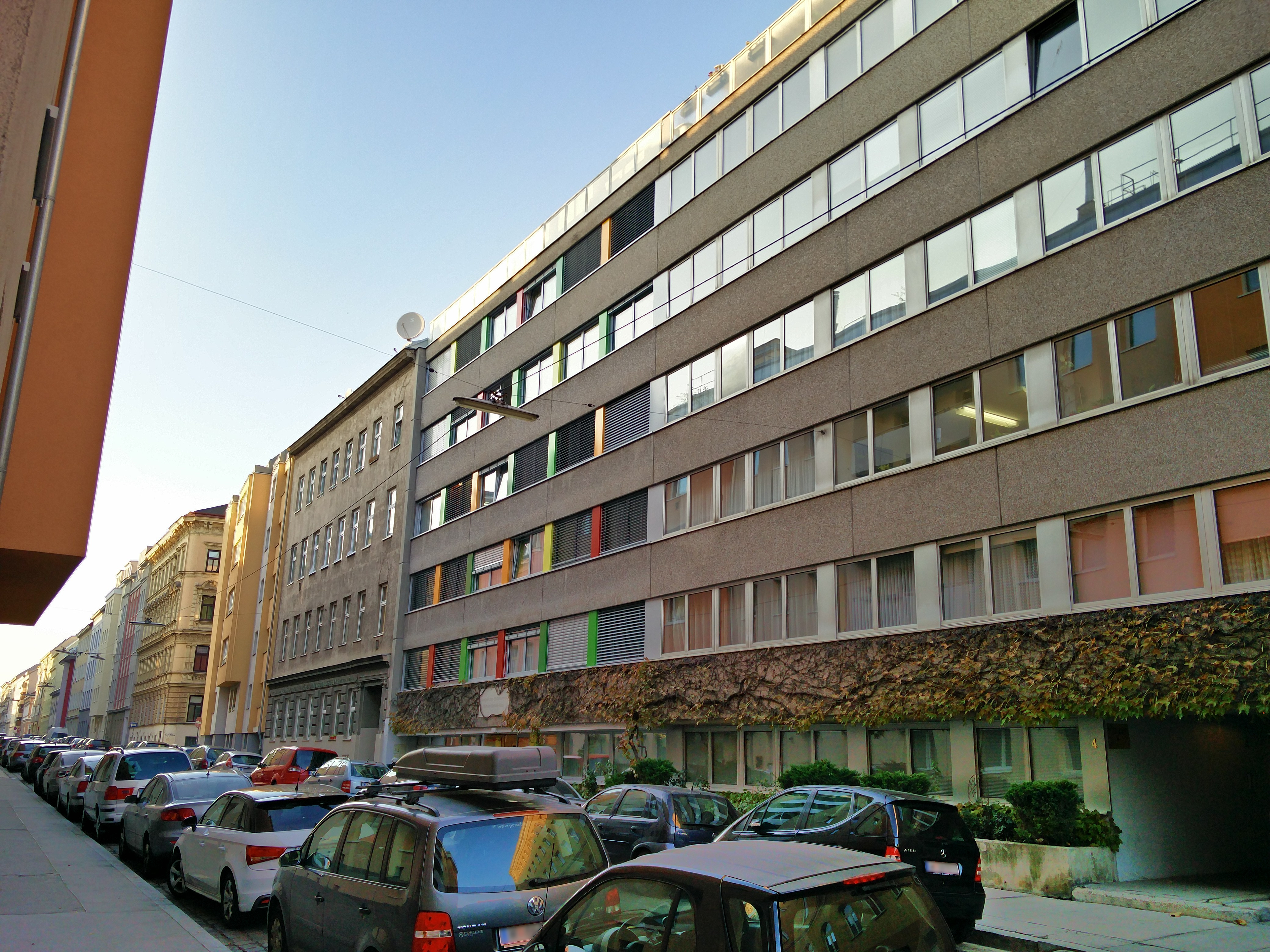 Dorm in Vienna named after Wilhelm Dantine